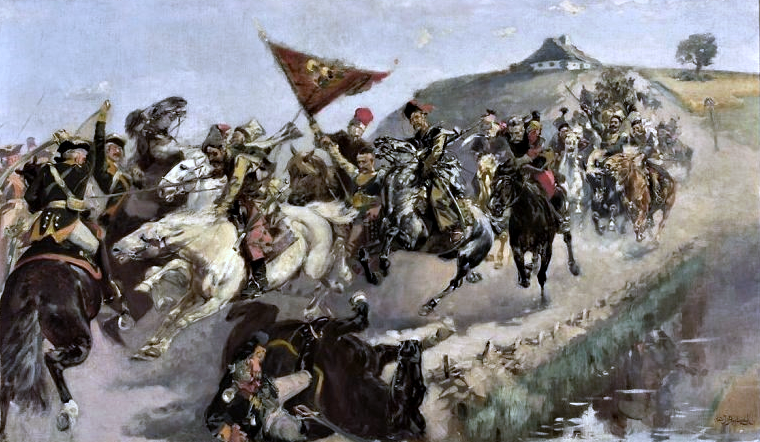 Polish-Russian skirmish during Bar Confederation